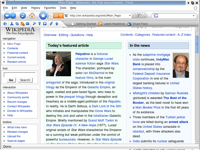 Screenshot of Flock in Xubuntu